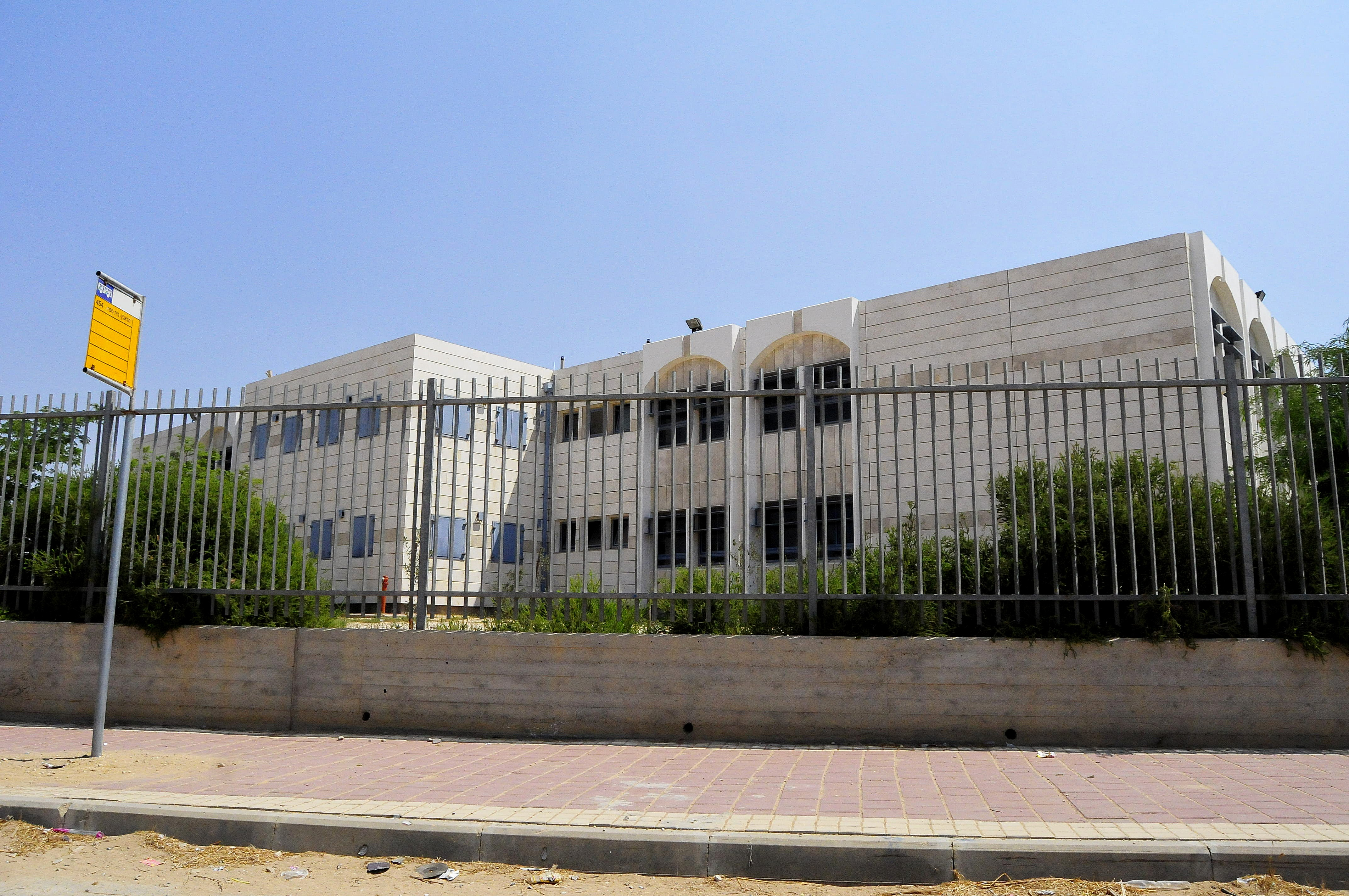 A local school in Tirabin al-Sana